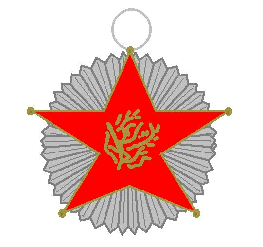 Order of Merit Libanon